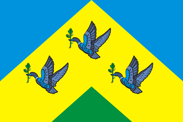 Novocheboksarsk (Chuvashia), flag